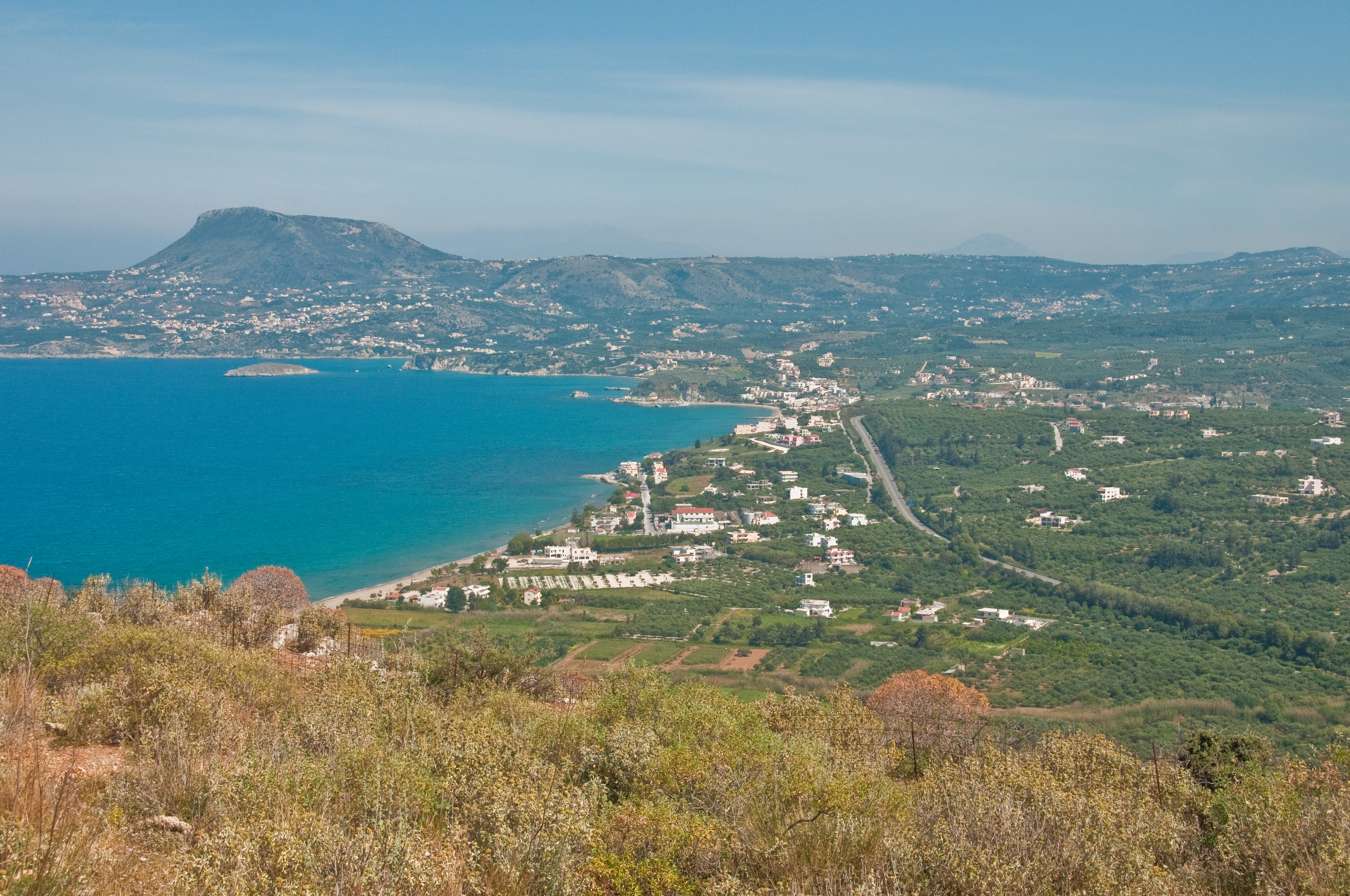 View of Kalives from Aptera